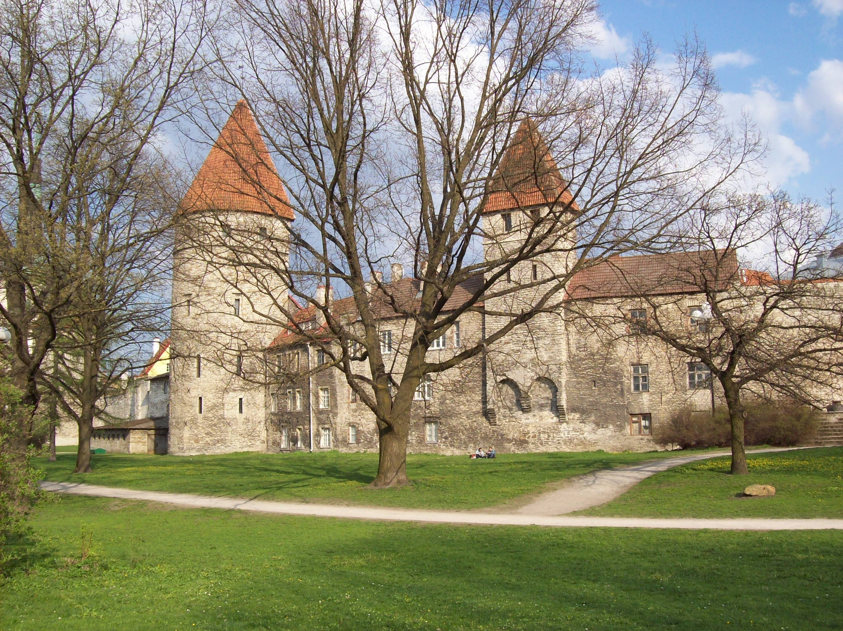 City wall of Tallinn